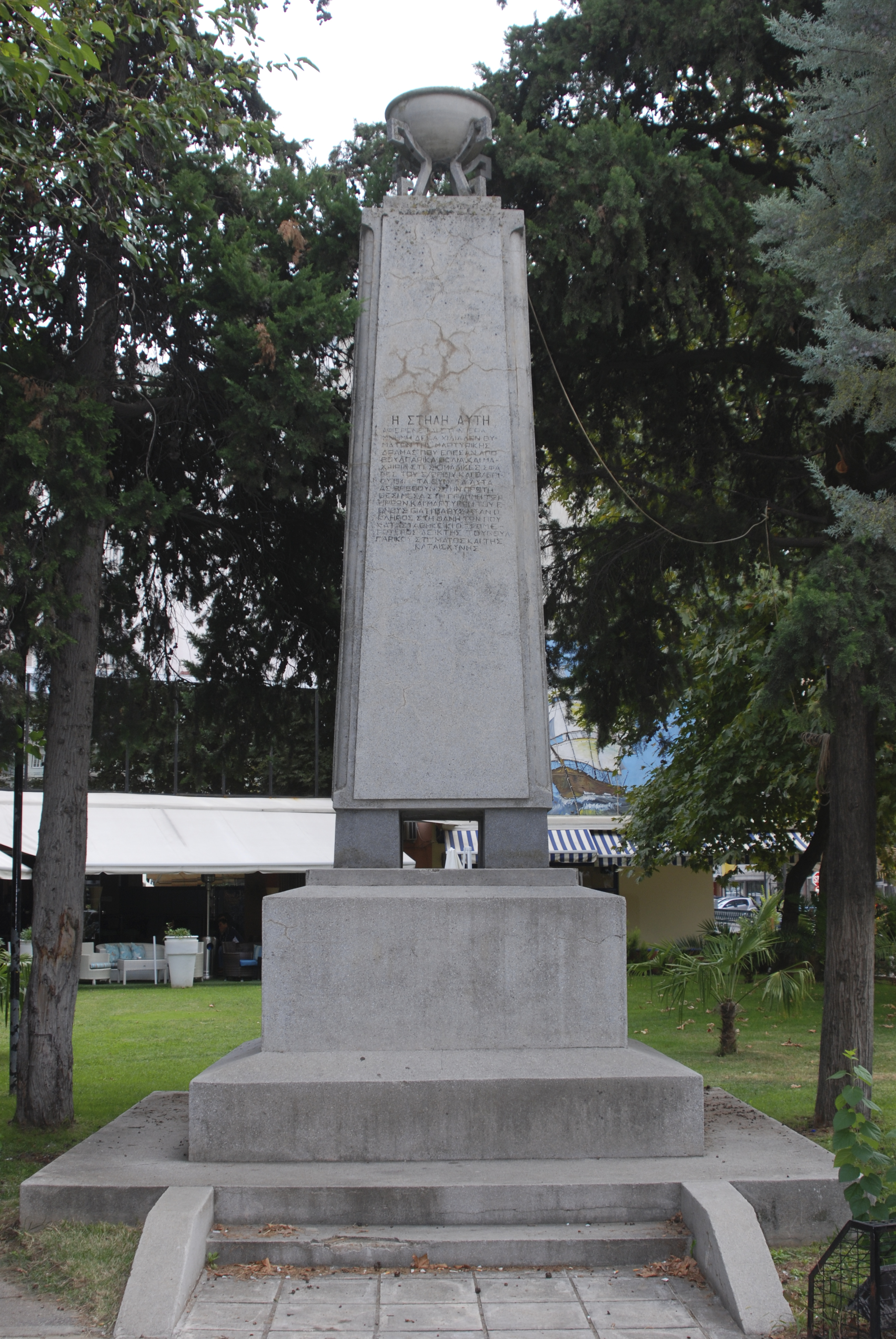 Tomb of the Greek victims, killed by the Bulgarian army during the Axis occupation (1941). Drama, Eastern Macedonia, Greece.